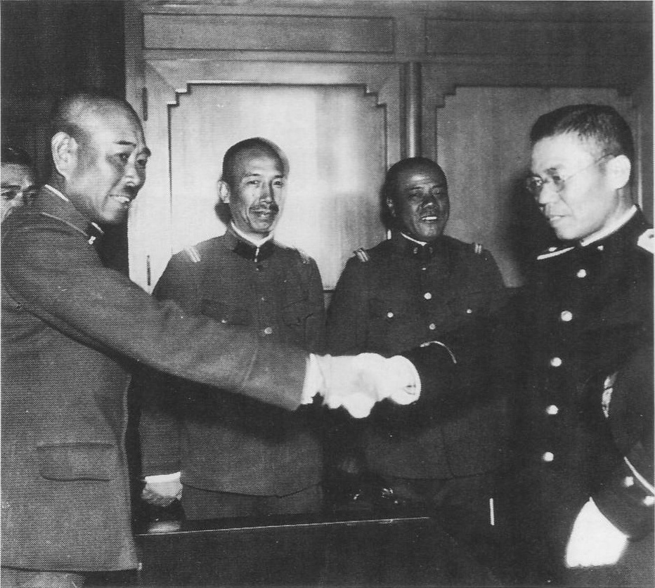 Resolution of the Go-Stop Incident(case) (In 1933 took place in Osaka, uproar that both soldiers and police took place about whether the case).